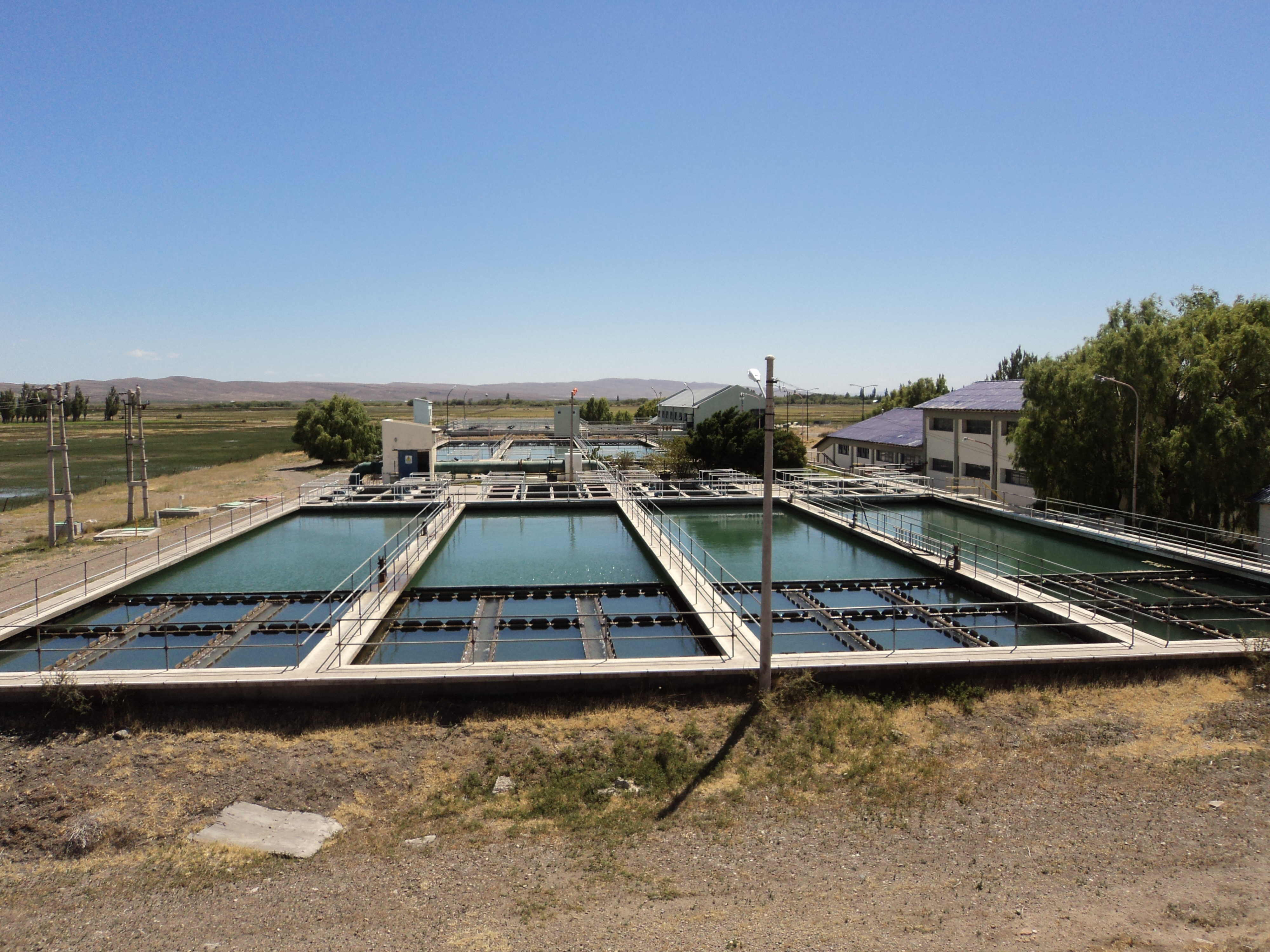 Plantas potabilizadoras acueducto Lago Musters